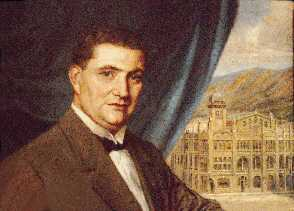 The architect Agistín Goovaerts with his work, the Junín Theatre